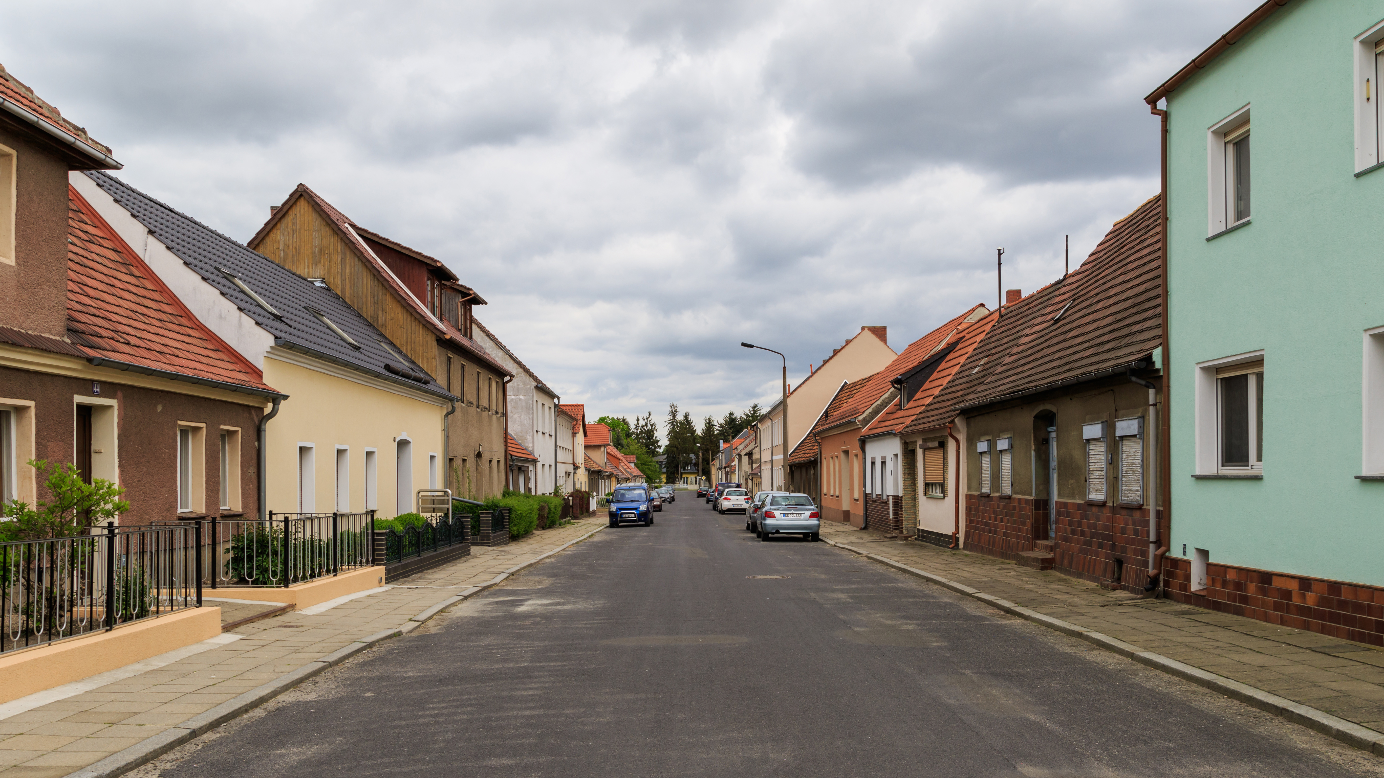 Doberlug-Kirchhain (Brandenburg, Germany): Grimmerstraße, Old town